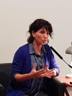 Kapka Kassabova and Philipp Blom on September 4, 2018 in the Kreisky Forum for International Dialogue in Vienna at the presentation of the book "Border. A Journey to the Edge of Europe" of Kapka Kassabova